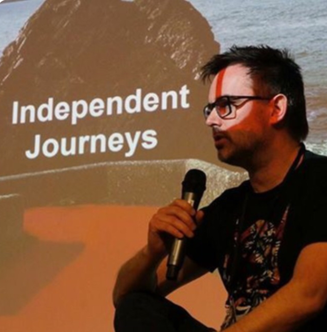 David Noel Bourke talking in an independent film panel at Dingle International Film Festival